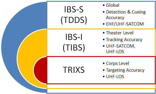 Three main components of the IBS (Integrated Broadcast Service).